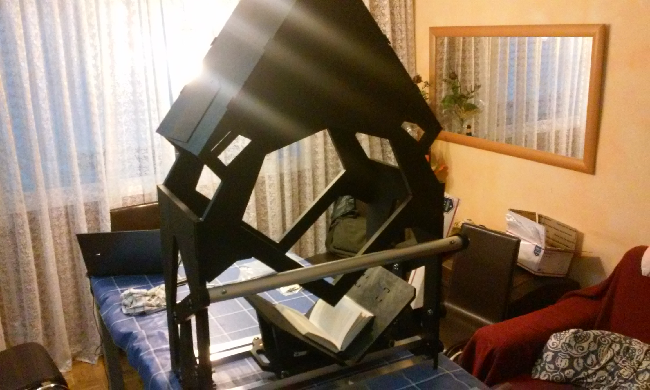 Montage of "The Archivist" book scanner for Amical Wikimedia.